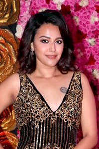 Swara Bhaskar at Lux Golden Rose Awards 2018